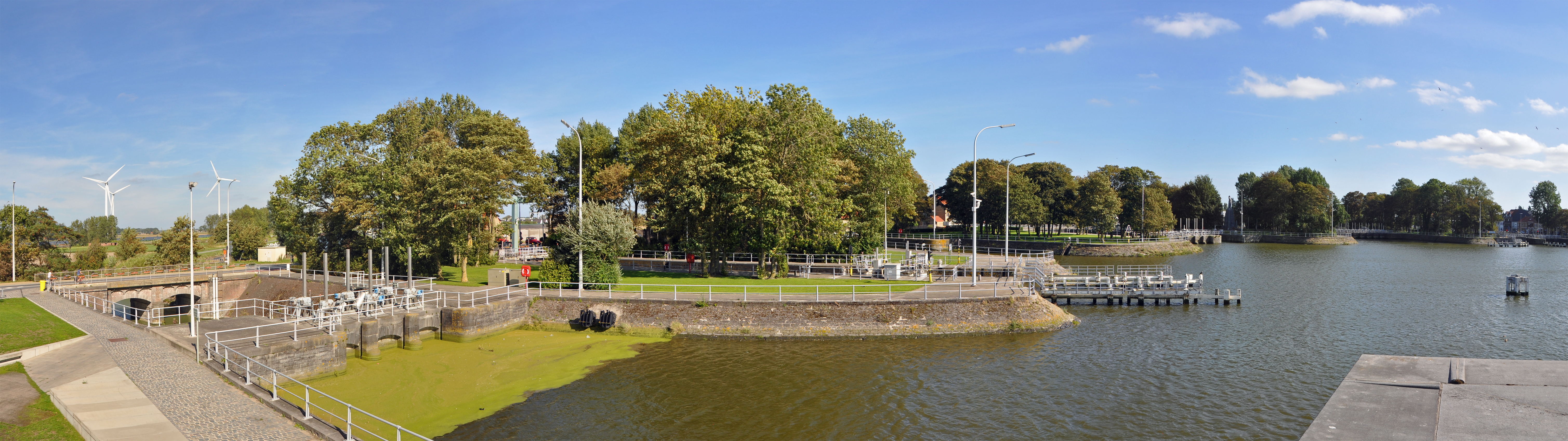 Nieuwpoort (Belgium): general view of the Ganzenpoot